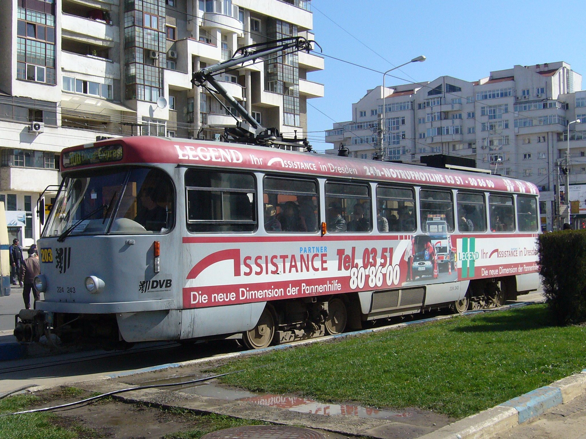 Tram Tatra T4 on line 100 in Craiova originally coming from Dresden.